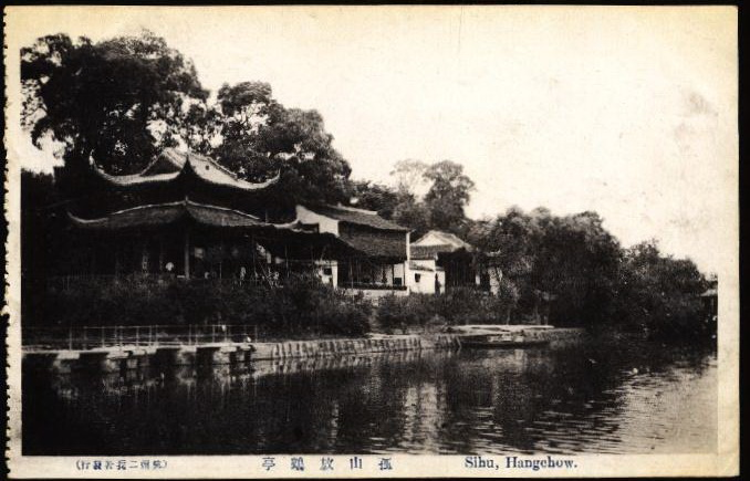 Postcard of West Lake